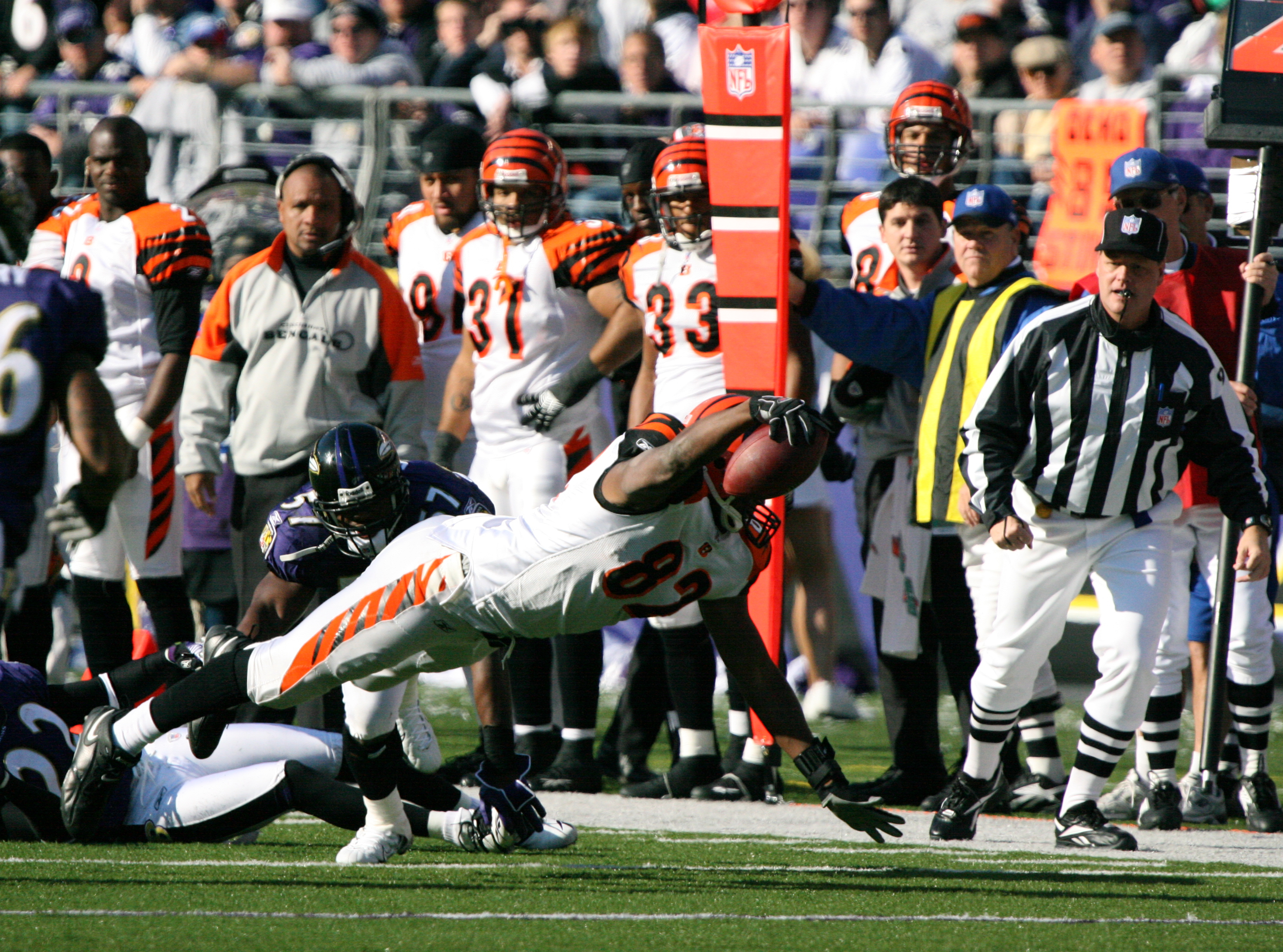 Reggie Kelly dives for a reception